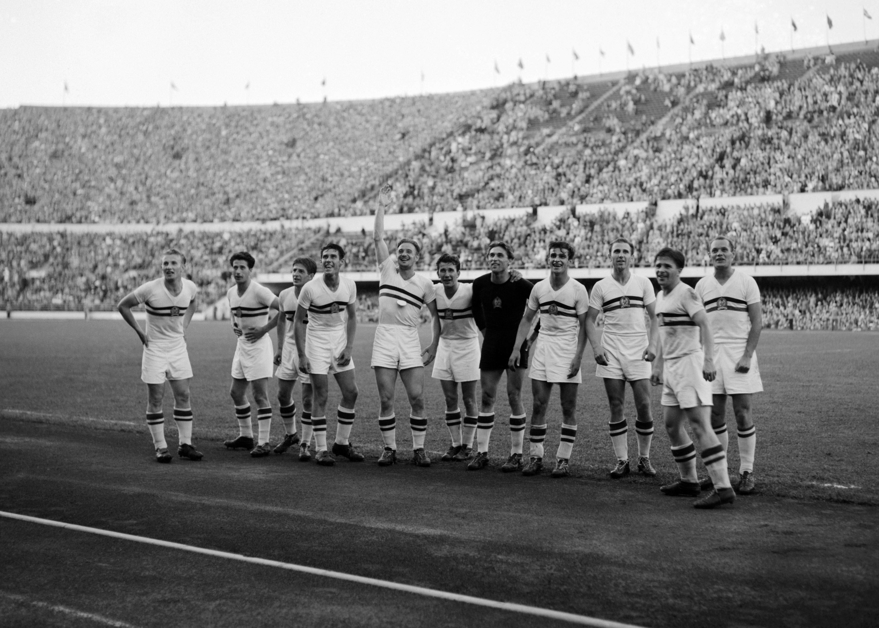 1952 Summer olympics, olympic stadium. The Hungarian national team after the final (Hungary - Yugoslavia 2:0). Lantos, Bozsik, Czibor, Palotás, Lóránt, Zakariás, Grosics, Kocsis, Hidegkúti, Puskás, Buzánszky.